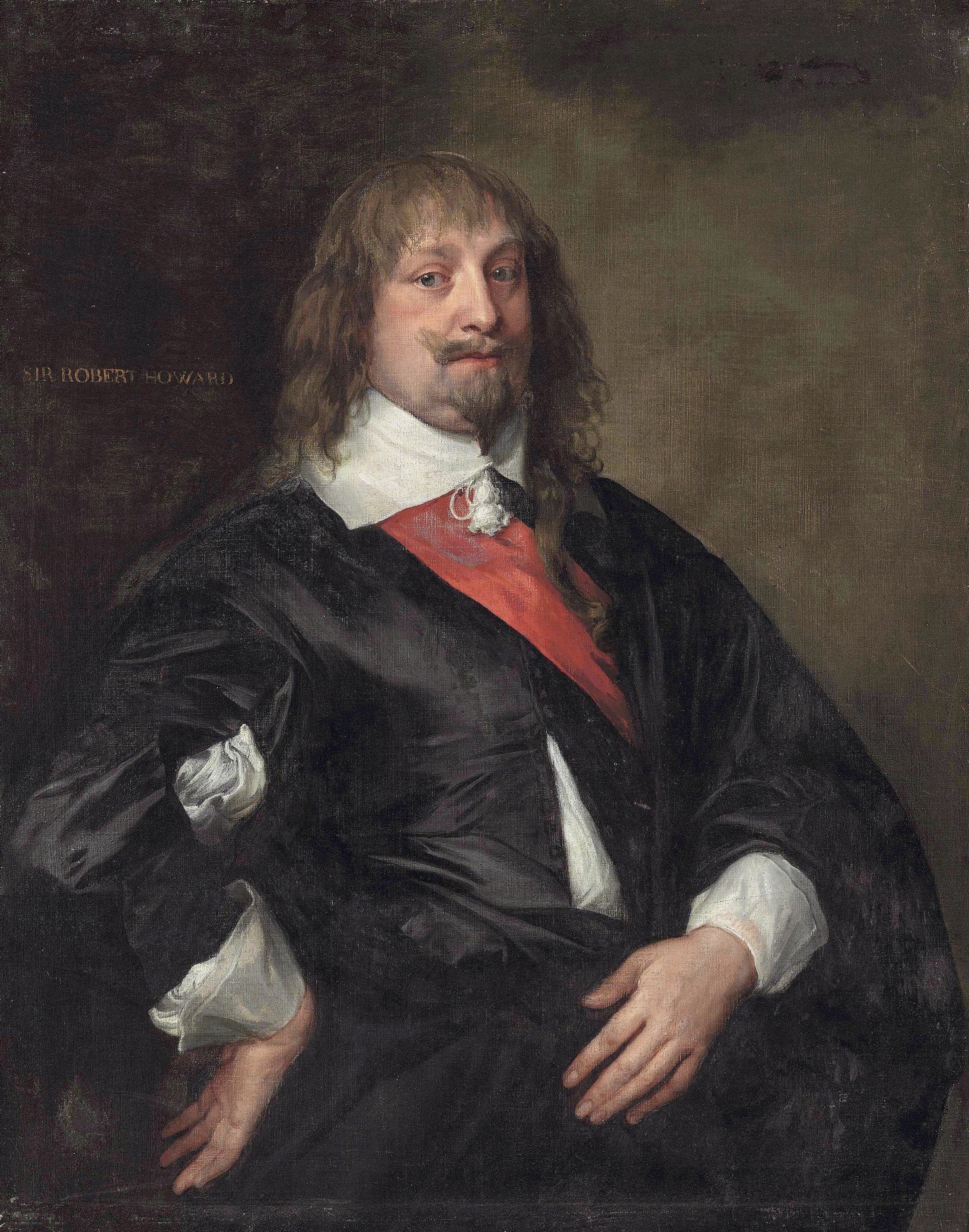 Robert Howard (1626-1698) inscribed 'Sir Robert Howard' (center left) oil on canvas 106.9 x 83.8 cm.